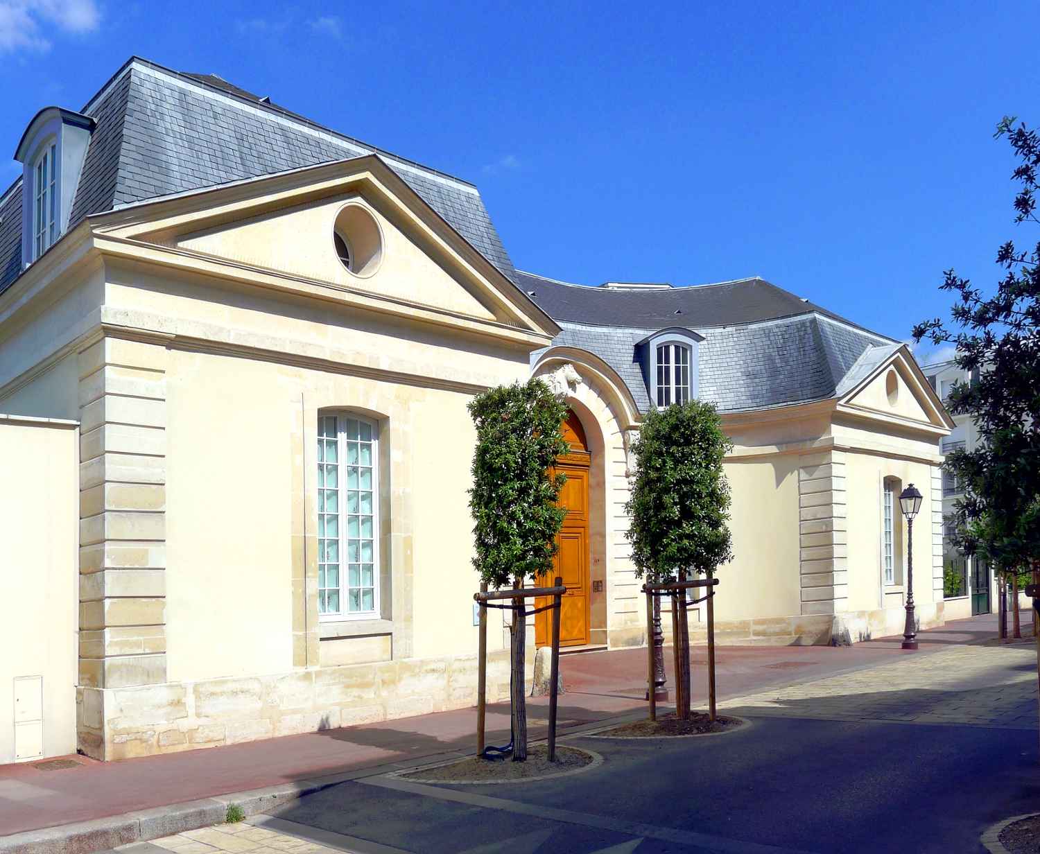 Charenton-le-Pont - Val-de-Marne, France